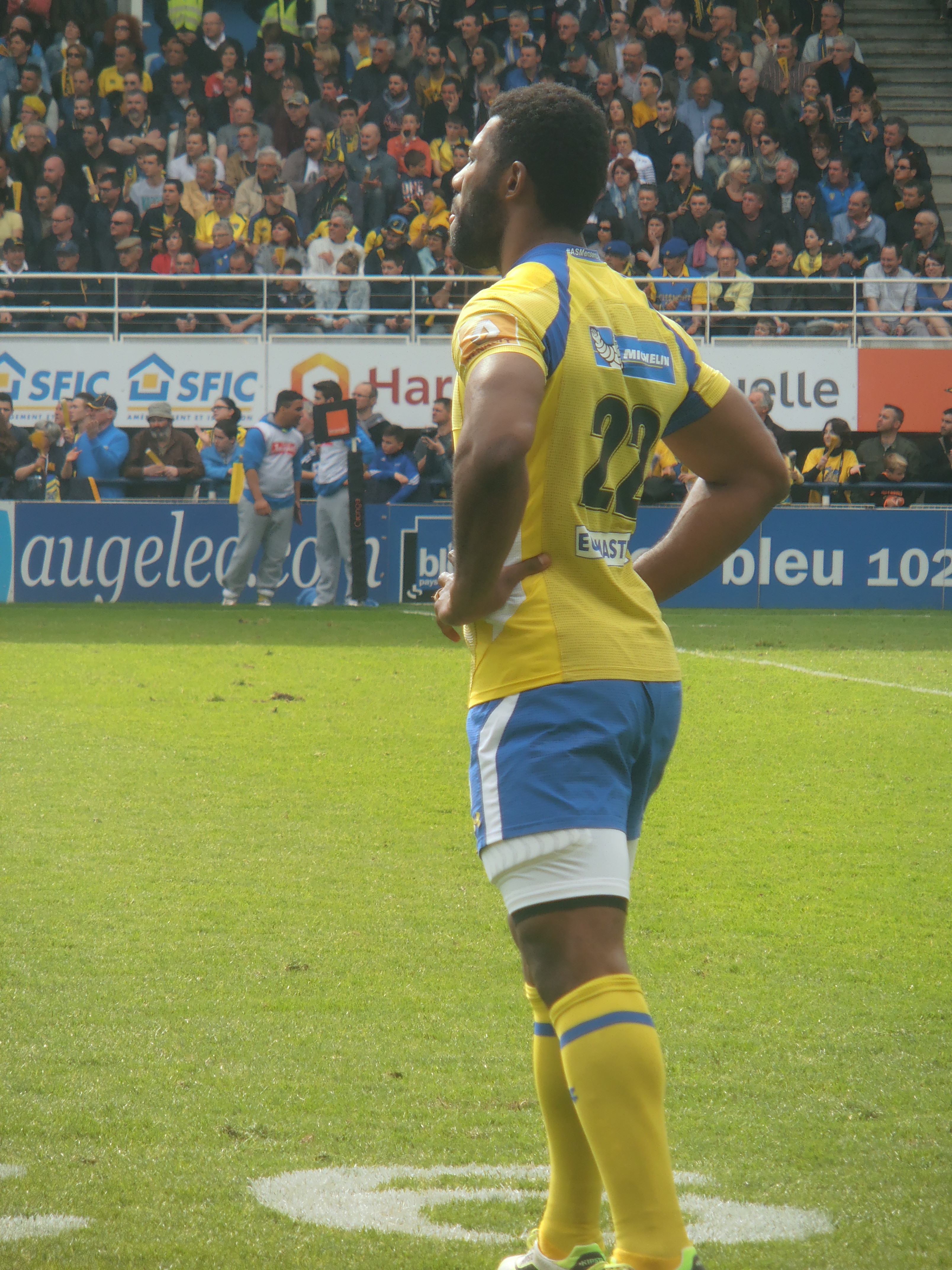 Clermont-Oyonnax